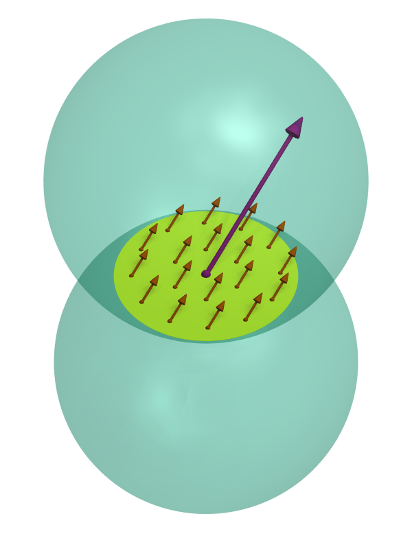 A picture to illustrate the definition of stress. The force applied by the one infinitesimal particle (top sphere) on an adjacent particle (bottom sphere) across the infinitesimal surface element that separates them (yellow disk) is represented by the large arrow. The stress (represented by the smaller arrows scattered over the disk) is the force divided by the area of the surface element. The picture used to illustrate the definition of other second-order tensors in 3-space, such as permeability, polarization, etc. Image created with POV-Ray by J.Stolfi on 2013-02-02. Source code available at